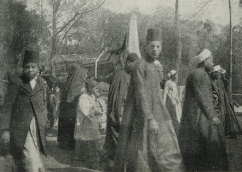 “A MOHAMMEDAN FUNERAL.”People walking with the coffin. Black-and-white photograph.